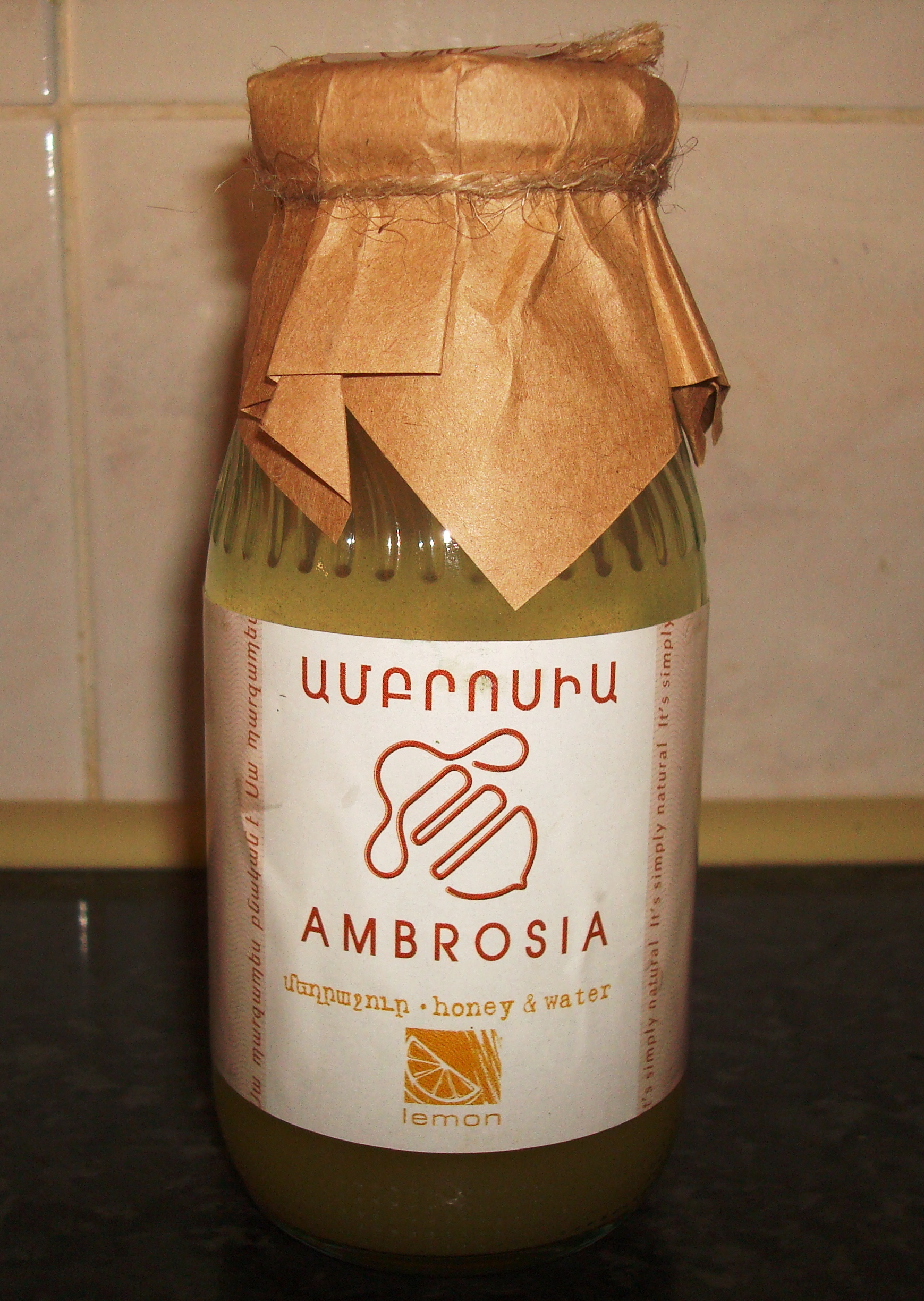 A bottle of Honey and Water.